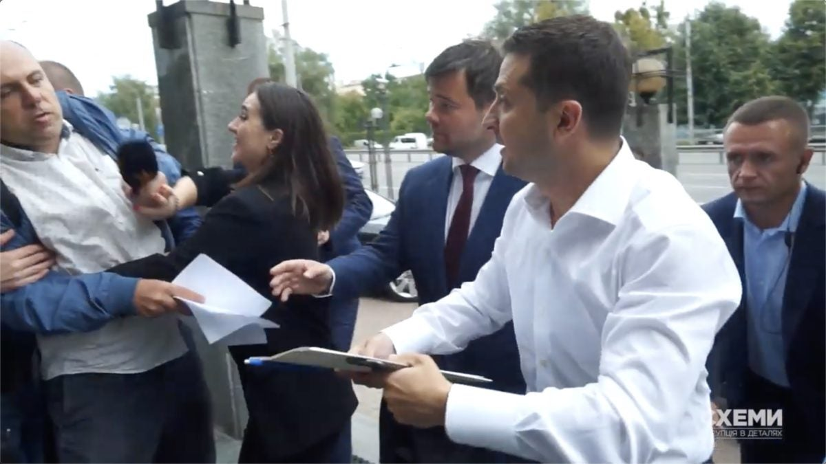 The moment when President Volodymyr Zelenskyy's spokesperson, Yulia Mendel, shoved reporter Serhiy Andrushko to stop him from asking a question.